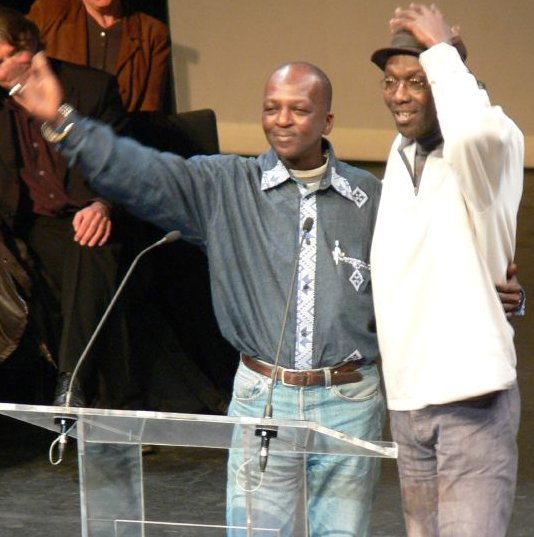 Singers of "Toure Kunda", Senegal